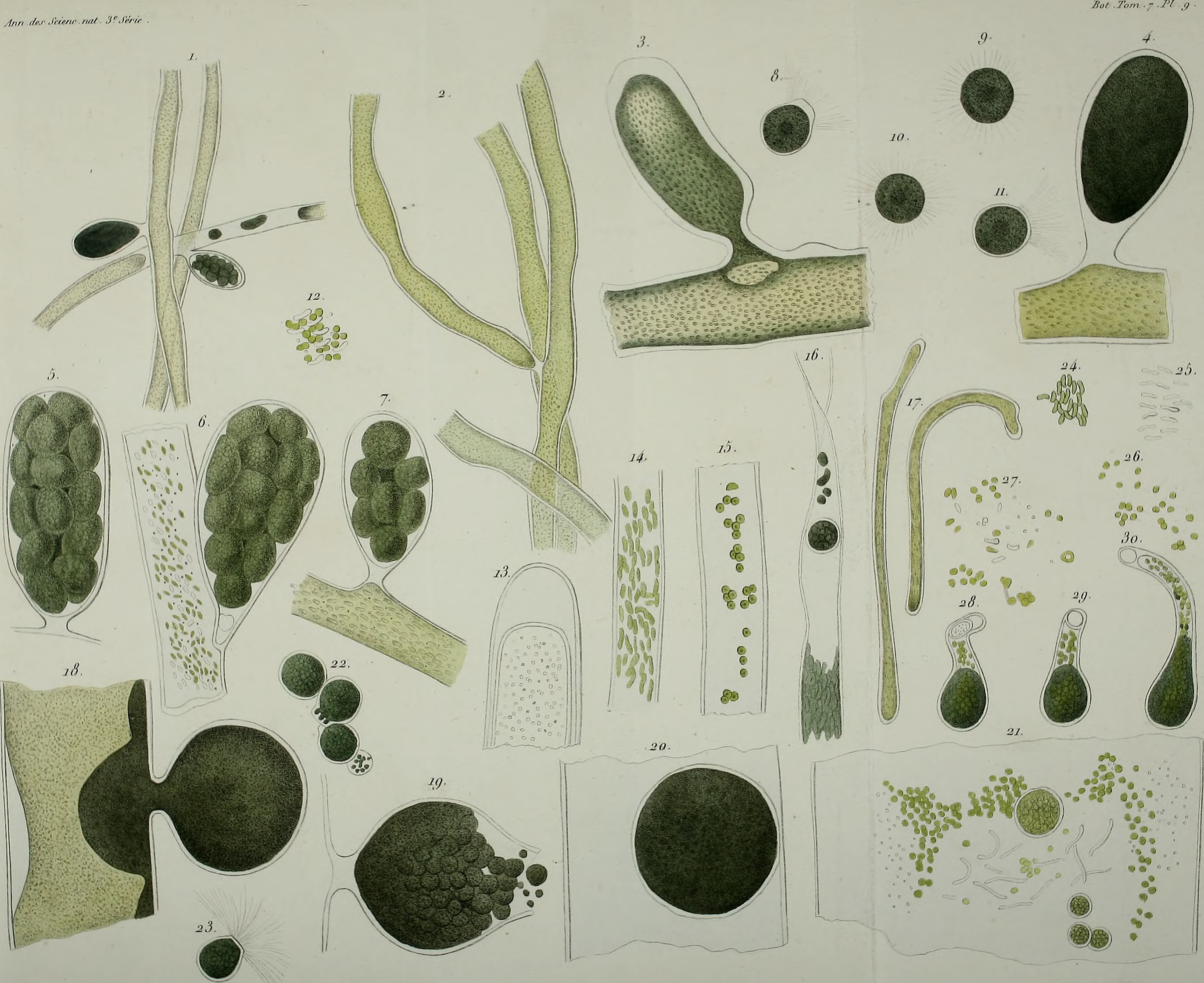 Title: Annales des Sciences Naturelles Botaniques Year: 1847 (1840s) Authors: Subjects: Publisher: Paris Text Appearing Before Image: ' Text Appearing After Image: J-. ïïé/aiù du Derbesia marina Sol. 18-3o JJé/aiù du Derbesia Lamourouxii Sol